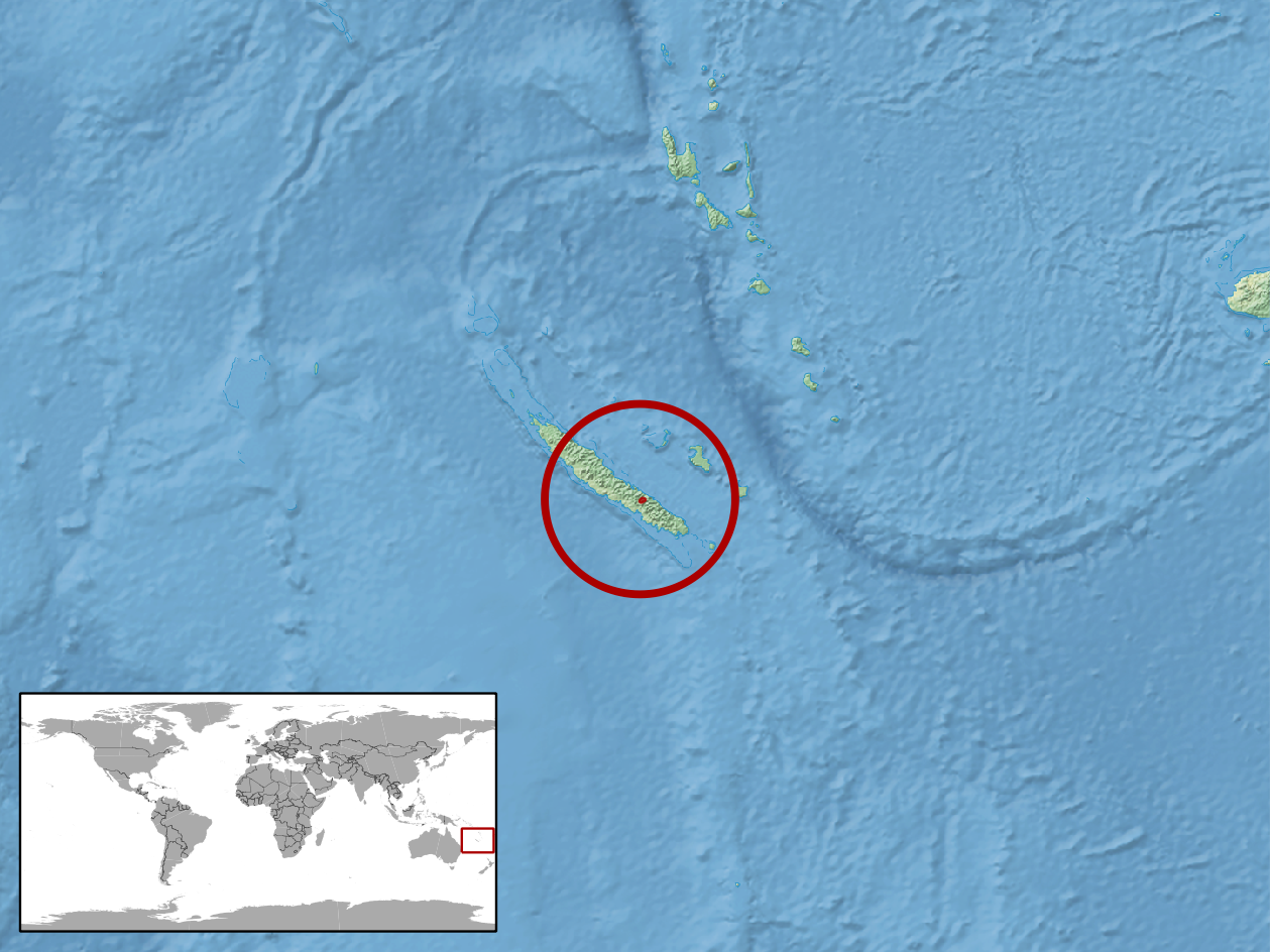 geographic distribution of Nannoscincus garrulus